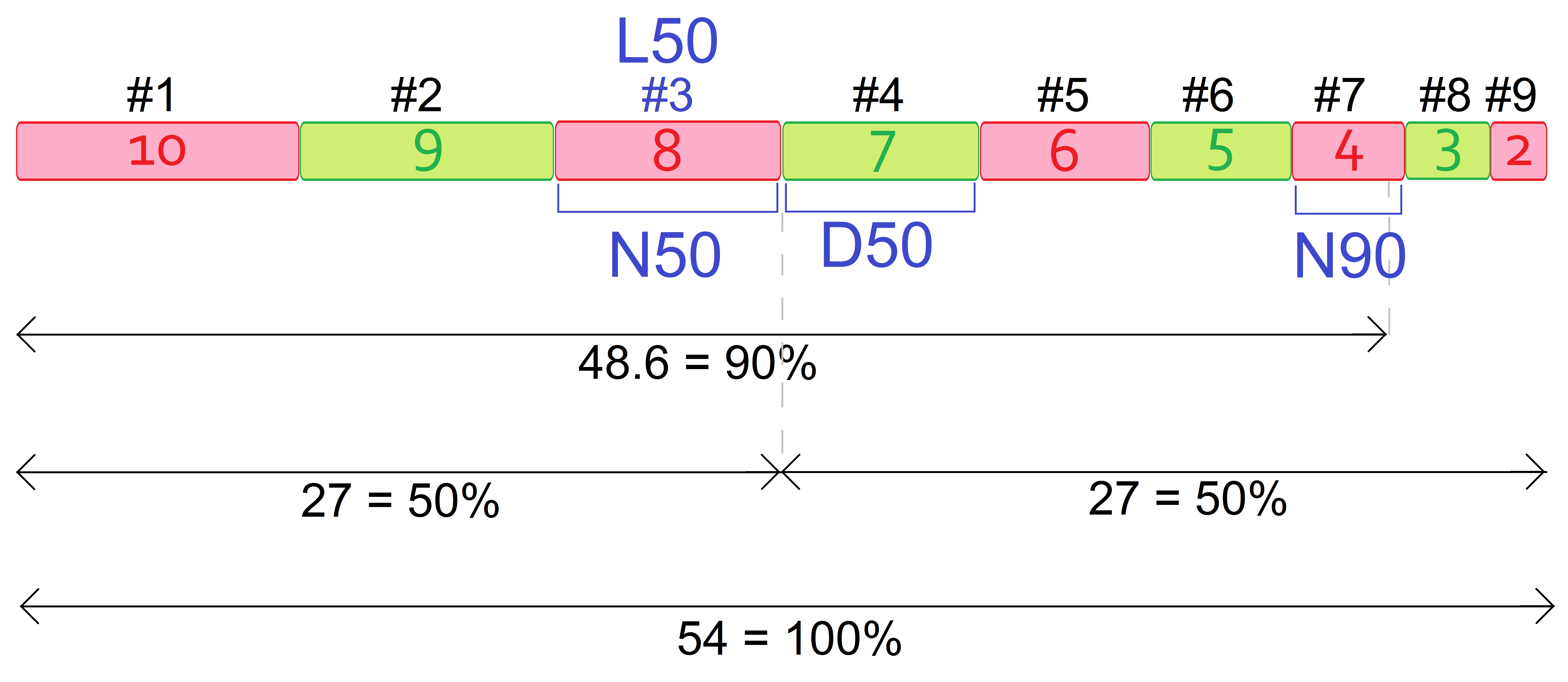 The simple example of counting N50, L50, N90, D50 statistics